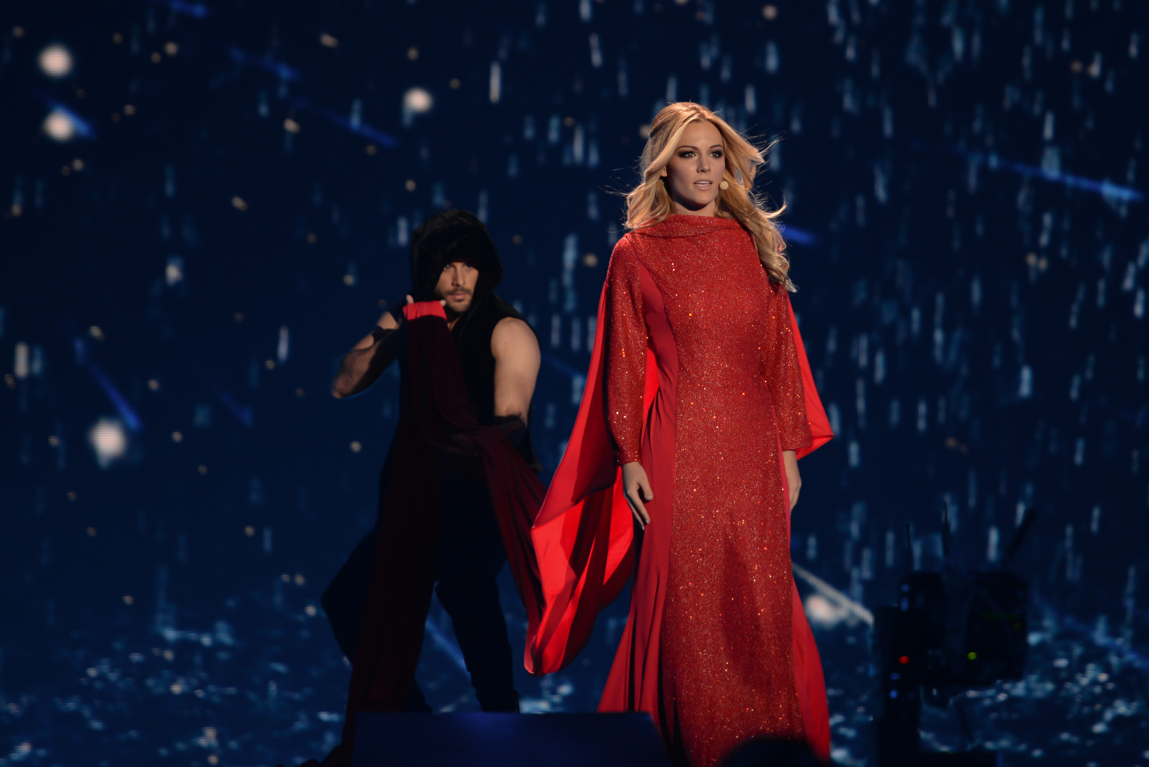 Eurovision Song Contest Vienna 2015: Edurne